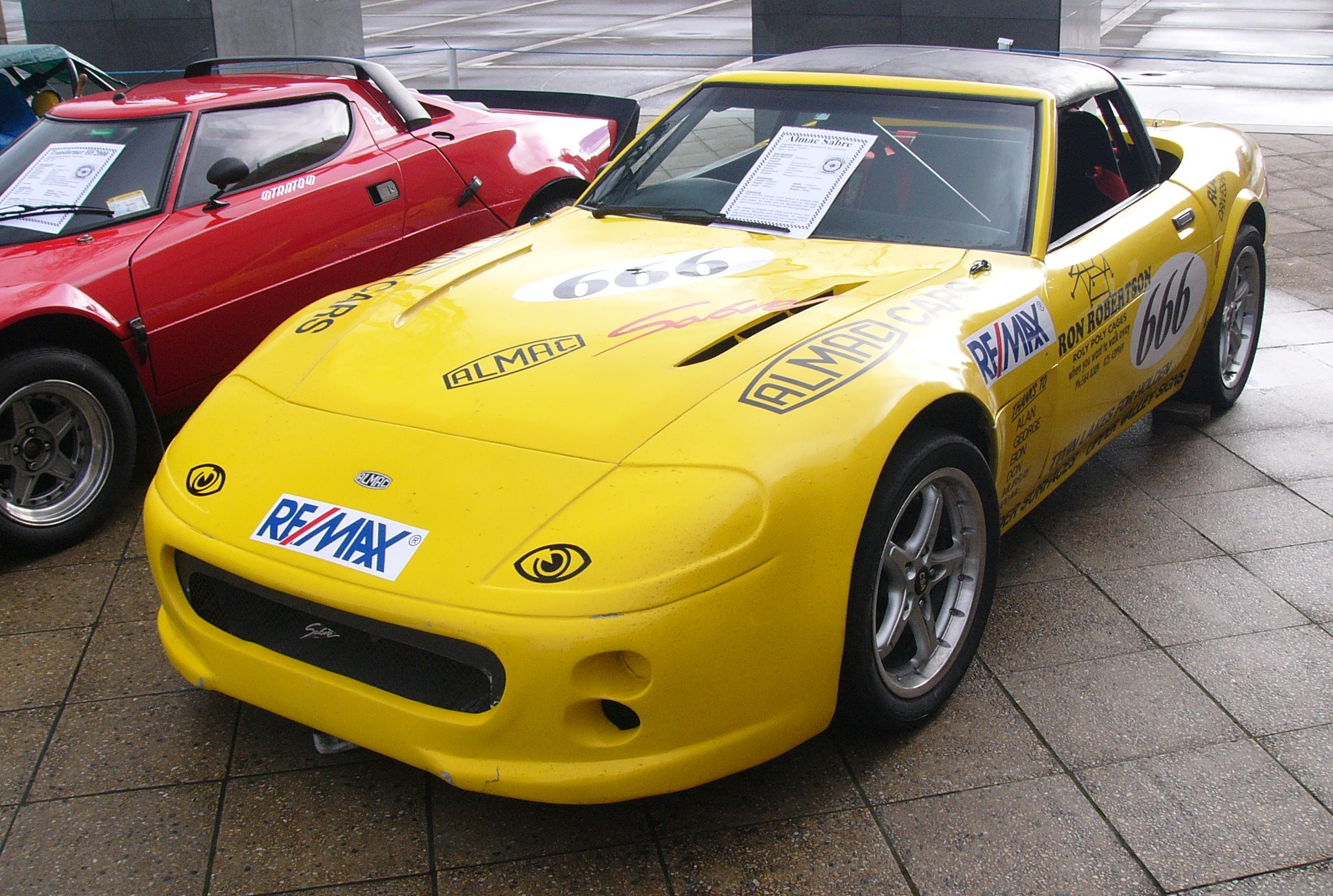 Photos taken at TePapa, Museum of New Zealand, Wellington. Sabre Racer[1]